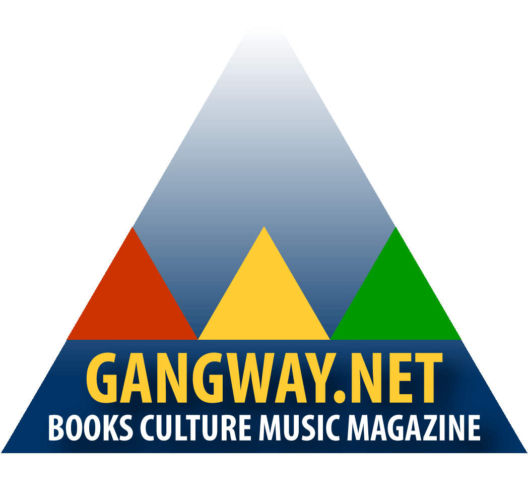 Gangway Literary Magazine Logo 1